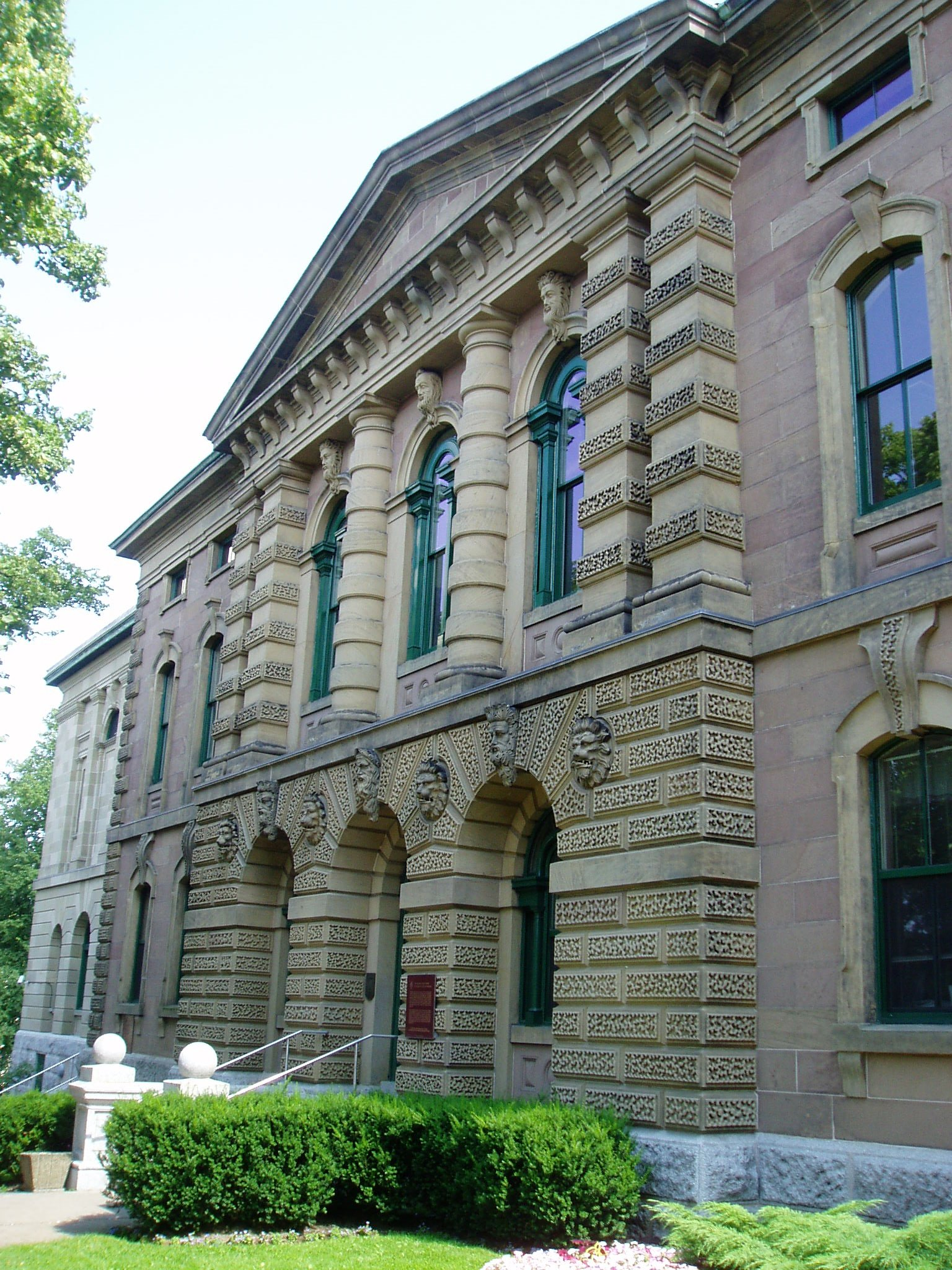 The Halifax Court House, taken by SimonP